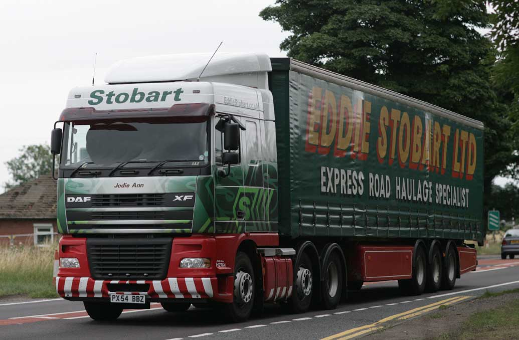 JODIE-ANN